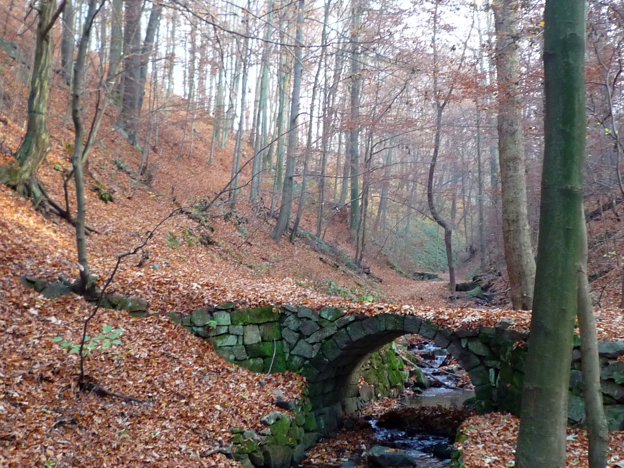 Friedrichsgrund in Dresden-Pillnitz